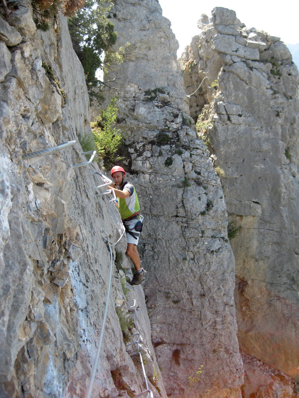 Crossing in the via ferrata of La Foradada, Huesca, Spain. The cable can be seen at the right descending from the first peak.